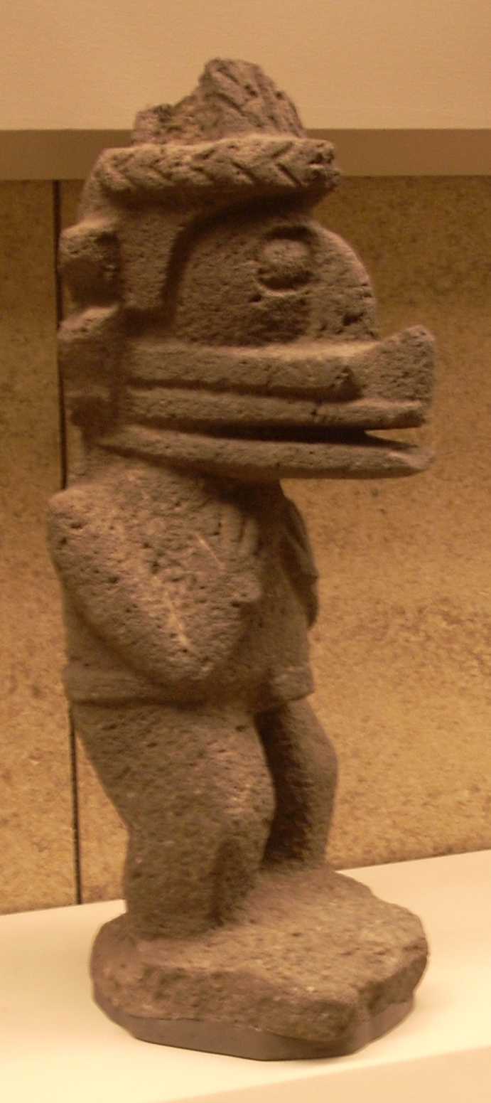 Aztec statuette of Ehecatl, the wind god. Late Postclassic (AD 1300-1521). British Museum.